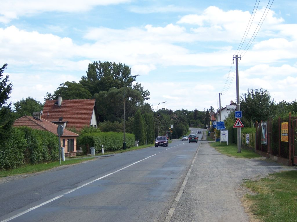 Světice